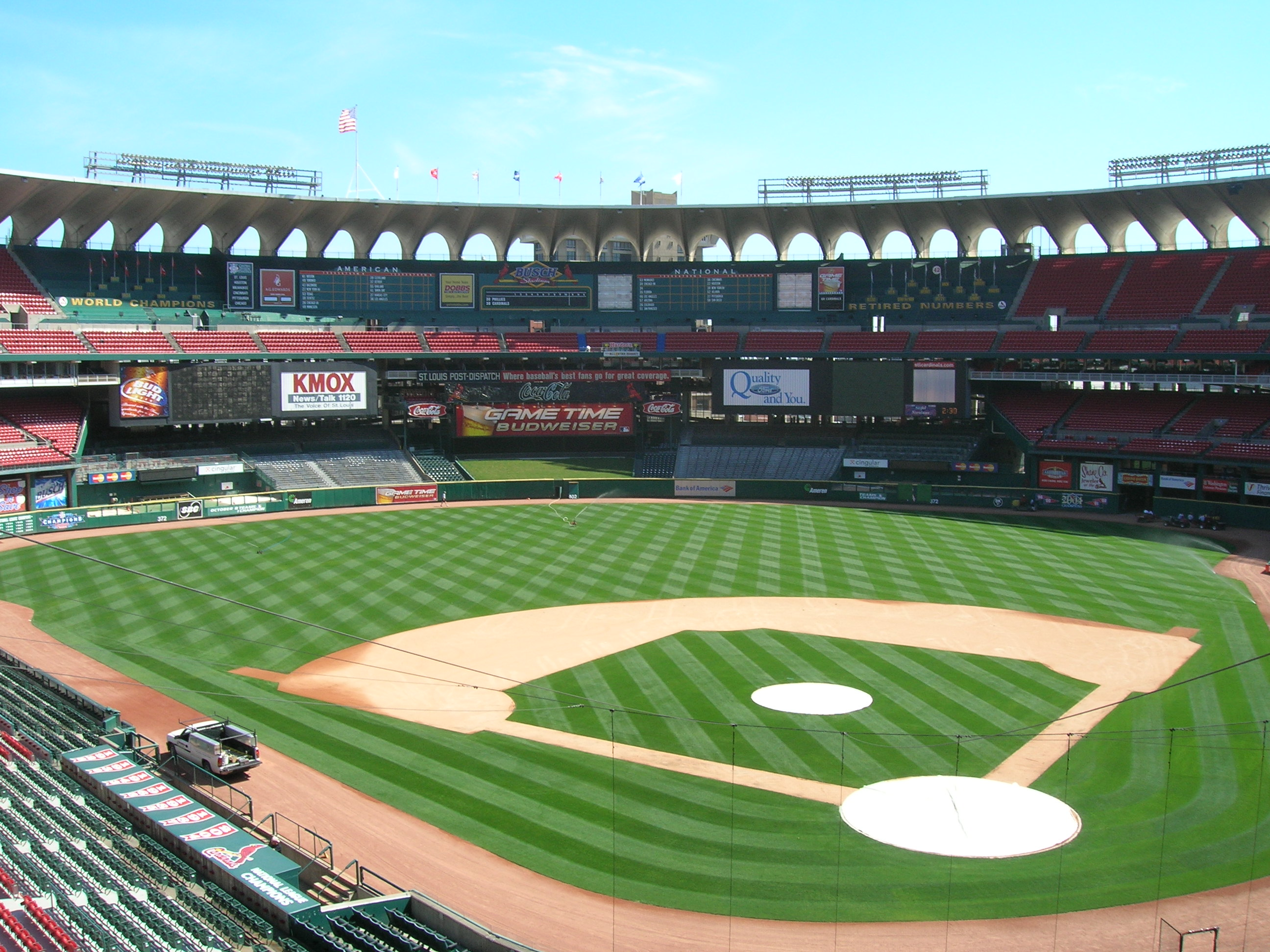 This photograph is from the portfolio of Jason DuVall. It was taken on April 4, 2005, in St. Louis, MO.17:09, 7 November 2006 . . Haaron755 . . 2592×1944 (980,711 bytes)